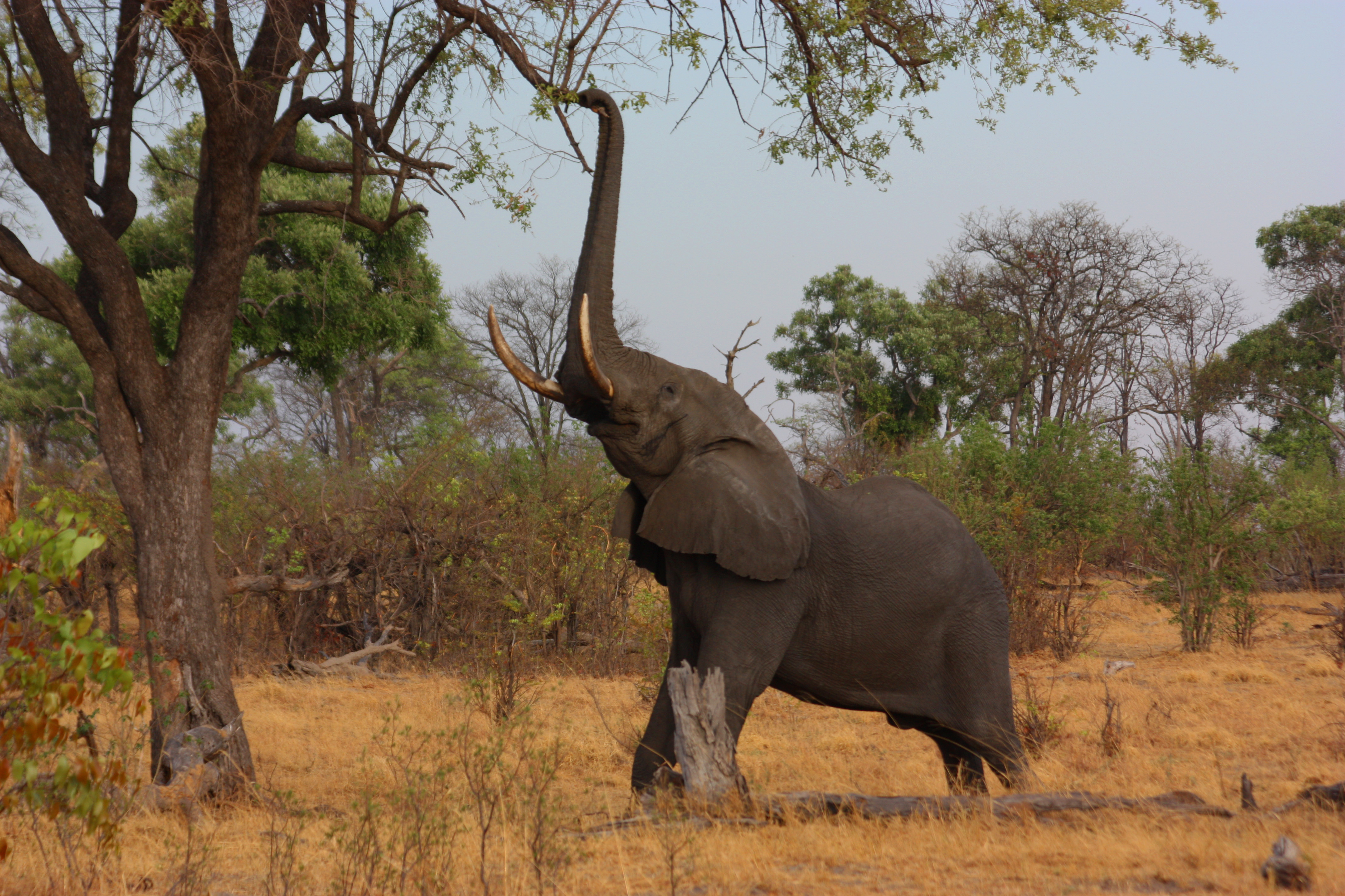 Male elephant reaching up to break off a branch for food. Okavango Delta, Botswana. 2 of 3